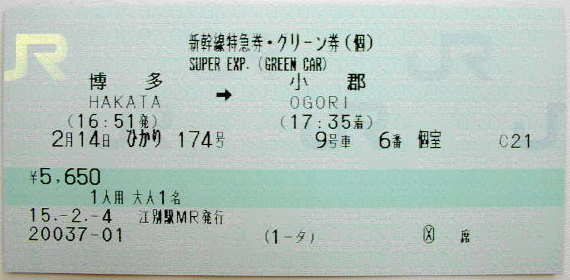 Hikari ticket